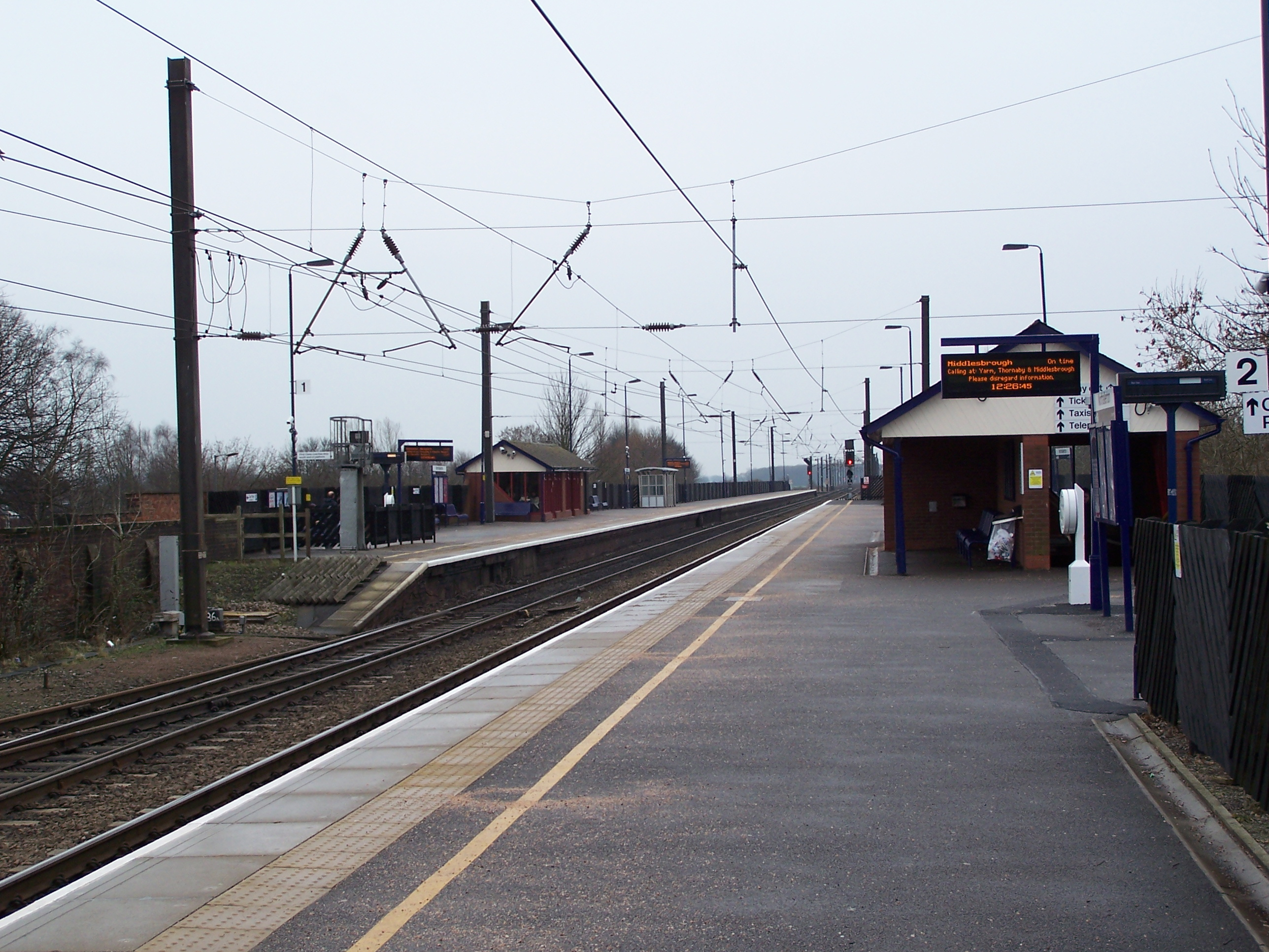 Photograph of Northallerton railway station